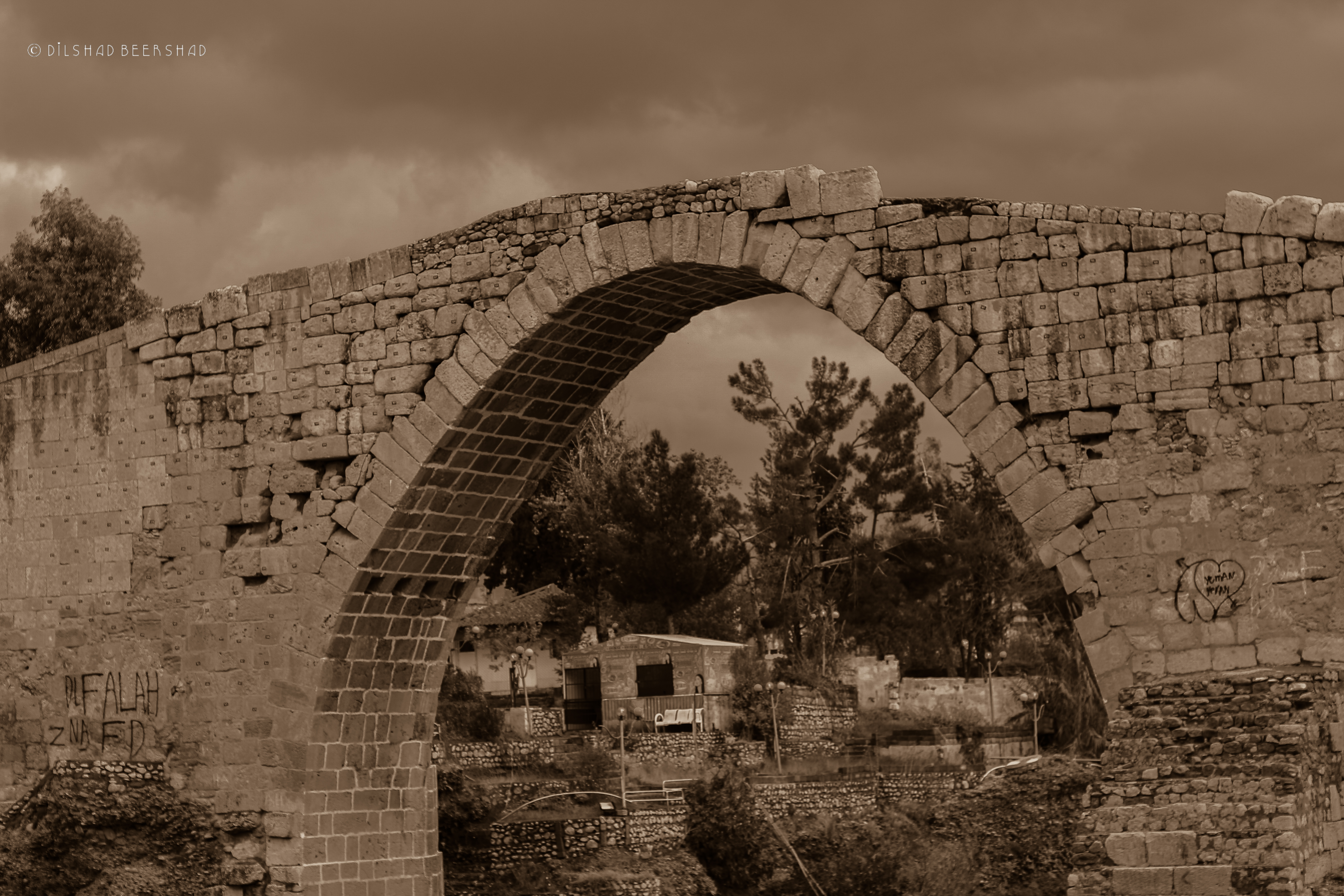 Delal or Pira Delal also The Bridge Delal" in Kurdish), informally known also as Pira Berî (Stone Bridge), is an ancient bridge over the Khabur river in the town of Zakho, in the Kurdistan Region of Iraq. Pira Delal is believed to have been first built during the Roman era, while the present structure appears to be from a later date.